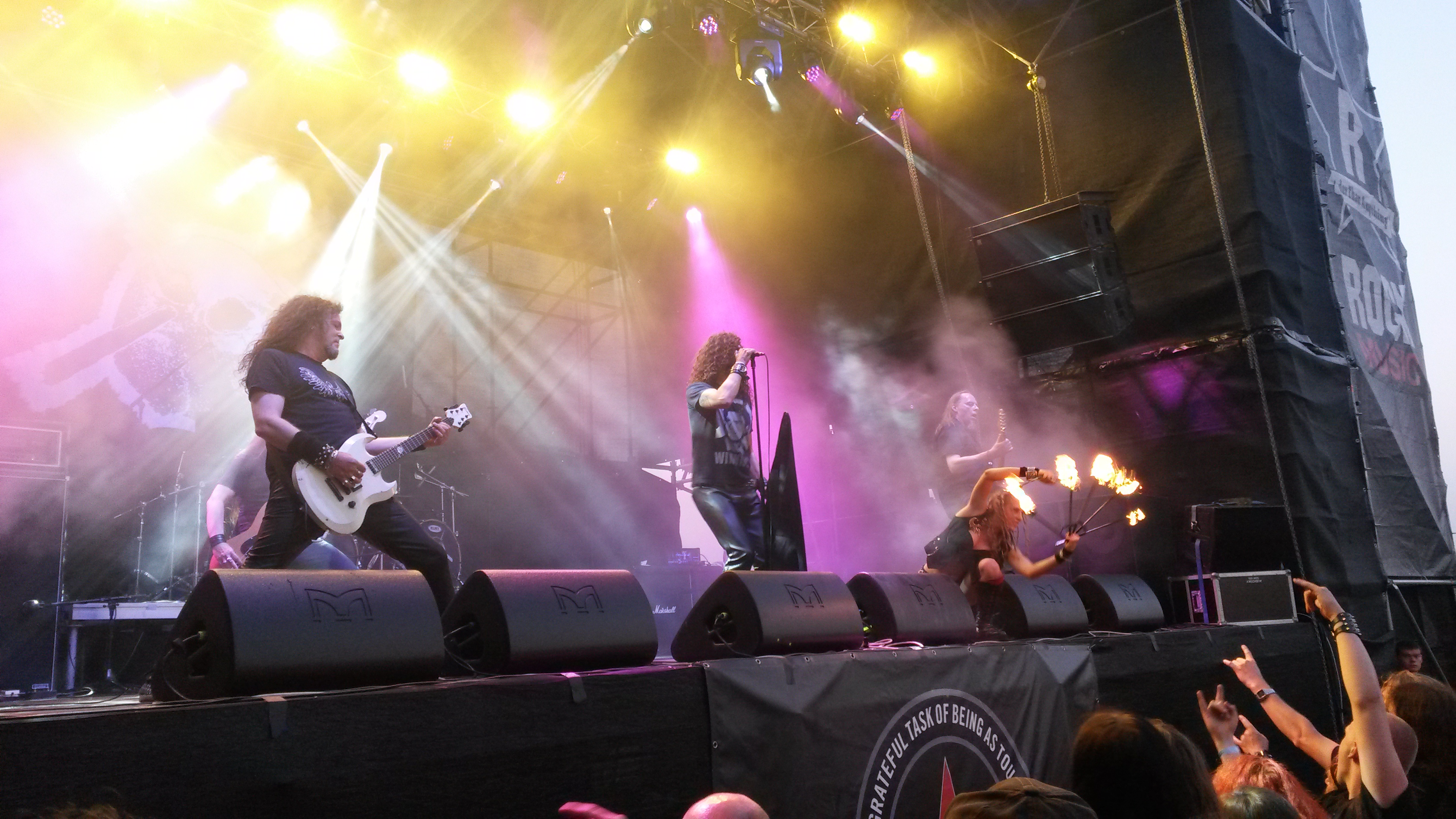 Candlemass performance at Hard Rock Laager 2015